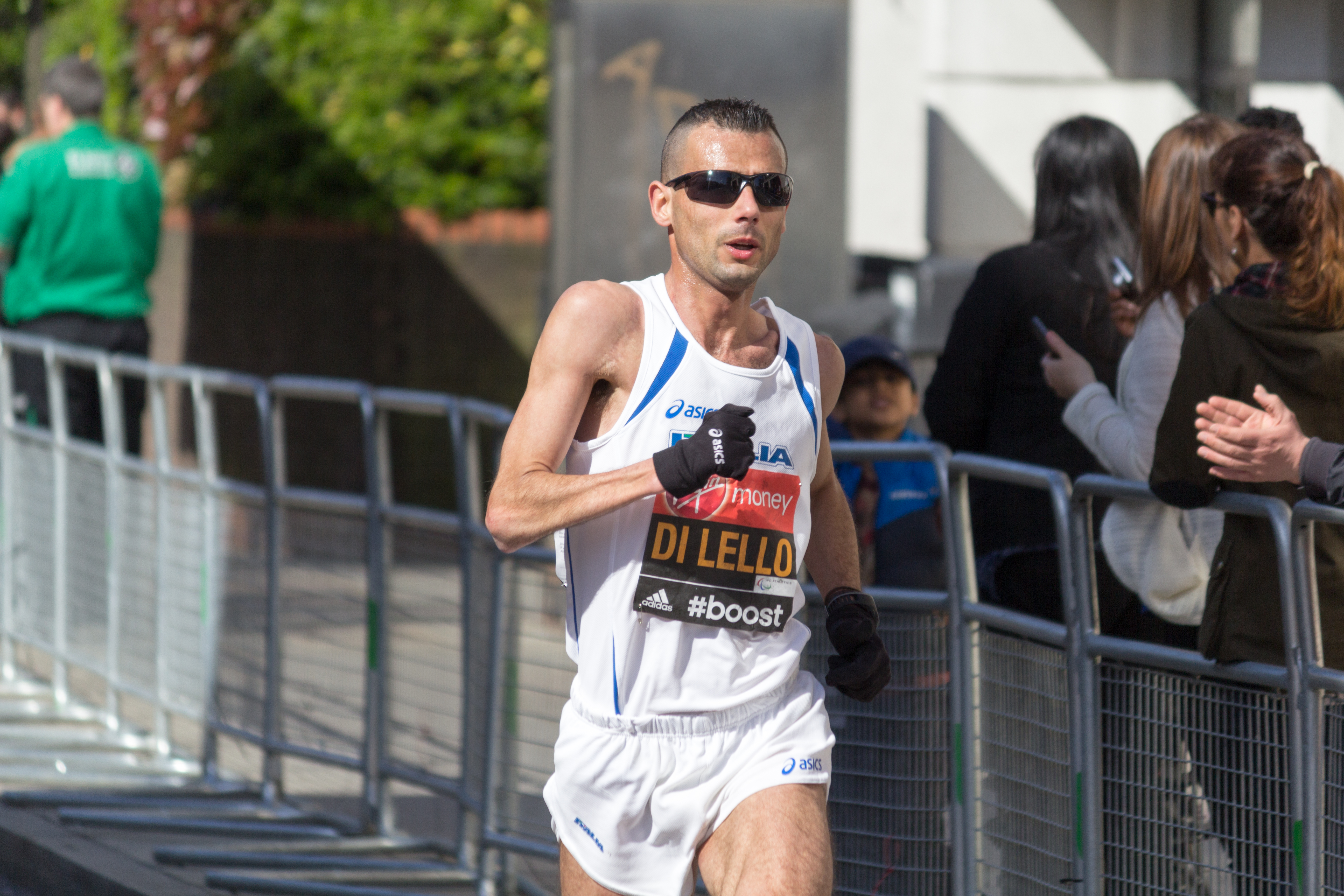 The 2014 London Marathon - IPC World Cup - Alessandro Di Lello, runner-up in the T44-T46 category.